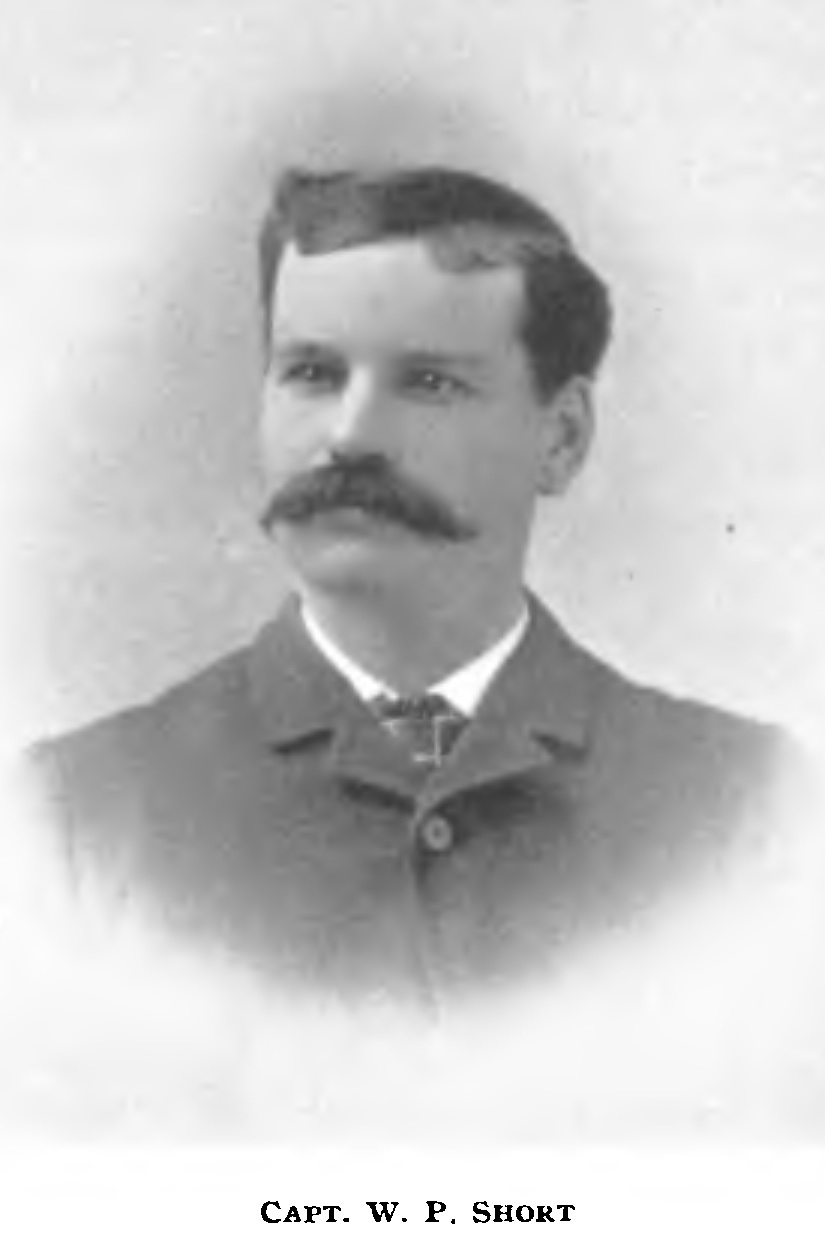 photograph of W.P. Short, steamboat captain